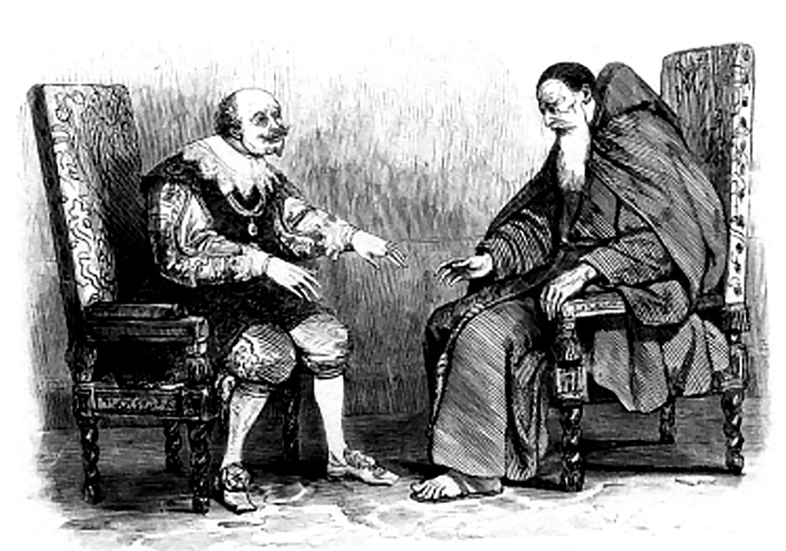 The most famous Italian historical romance,and the masterpiece of Alessandro Manzoni.